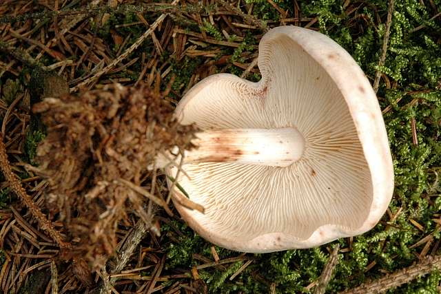 Rhodocollybia maculata from Commanster, Belgium. The determination of the species shown in this picture has been verified.